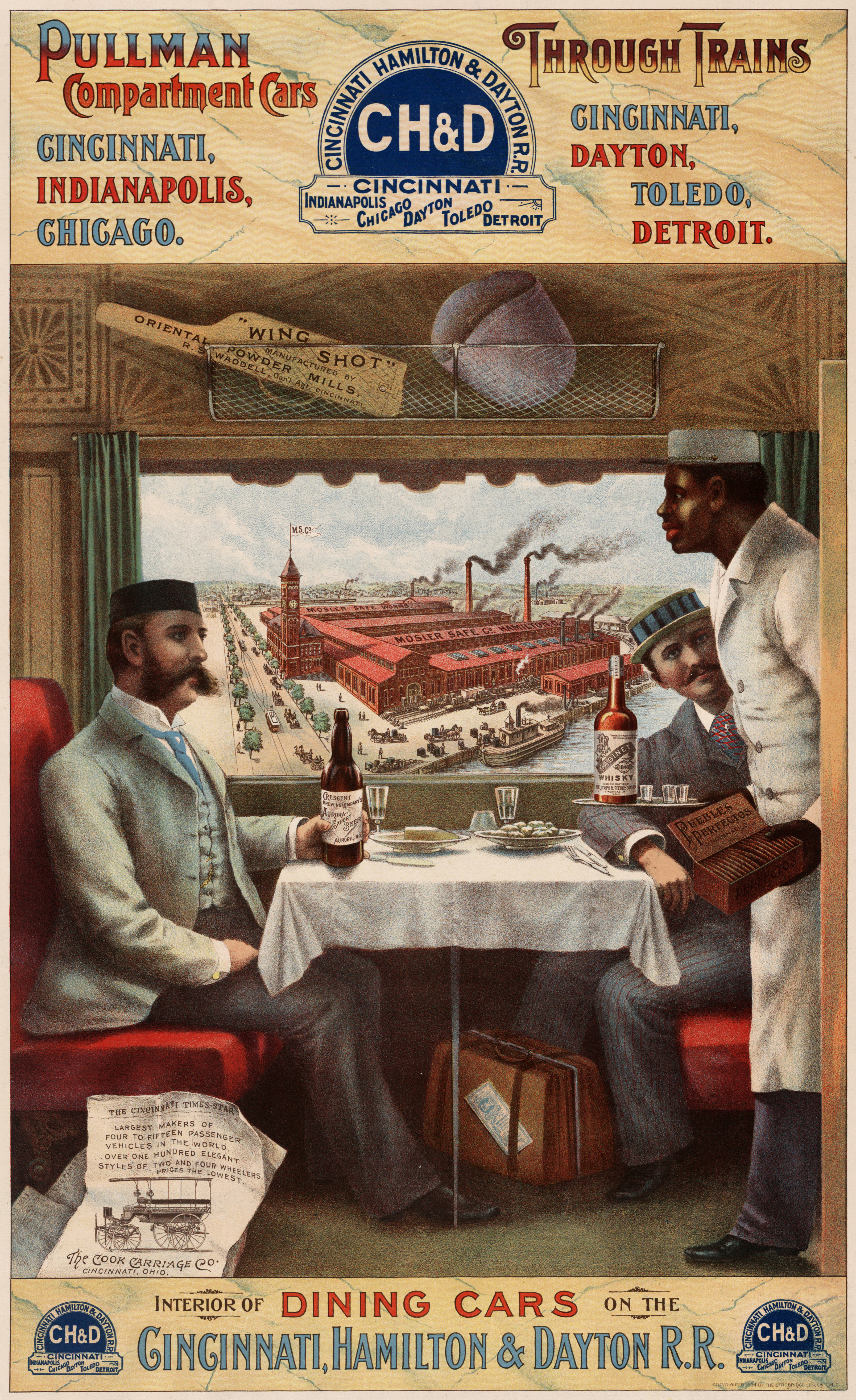 Pullman compartment cars through trains. Cincinnati, Indianapolis, Chicago. Cincinnati, Dayton, Toledo, Detroit. Interior of dining cars on the Cincinnati, Hamilton & Dayton R.R. Advertising poster shows two men seated at a table in a dining car on a train being served by an African American porter.